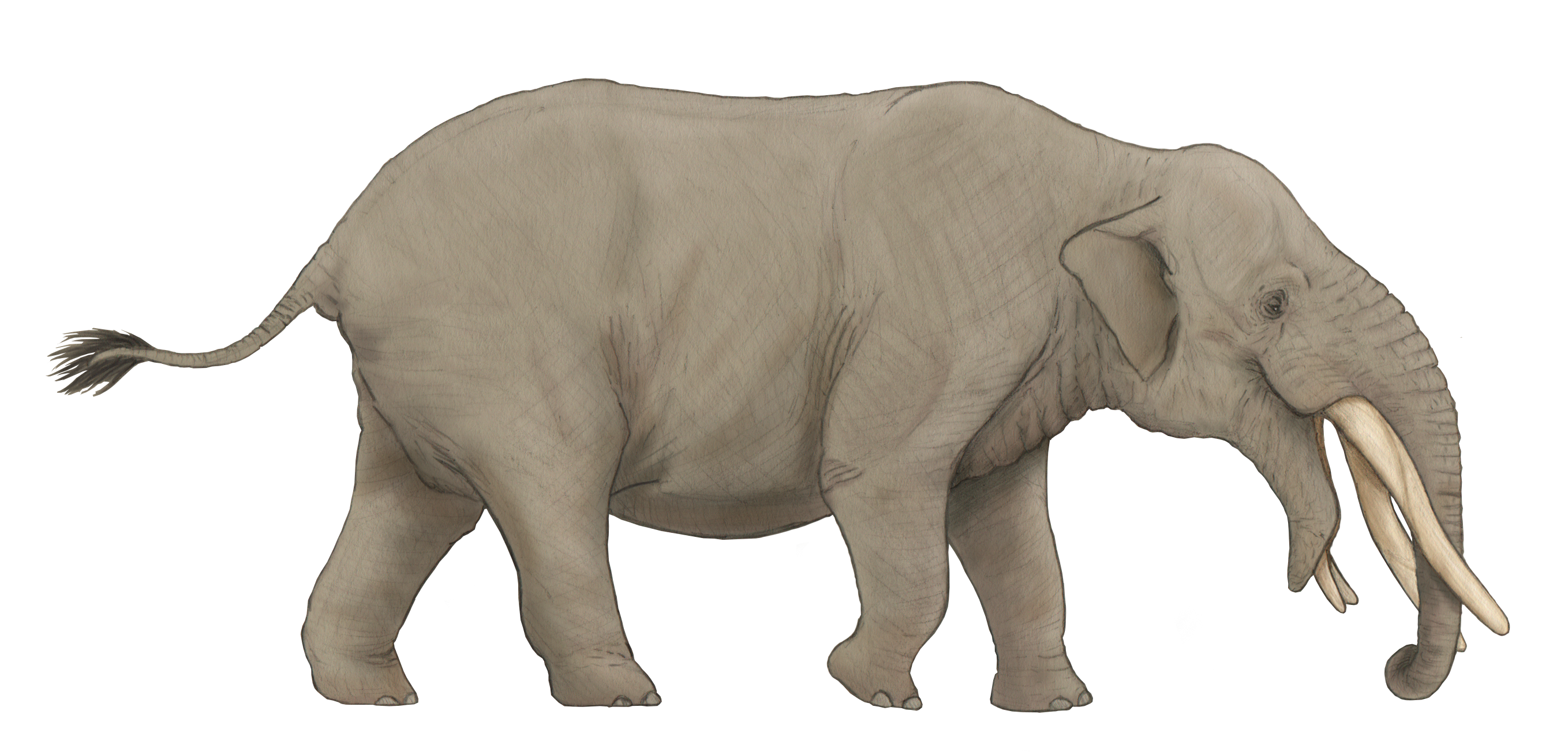 extint proboscidean of the Gomphotheriidae family, advised by Roberto Diaz Sibaja